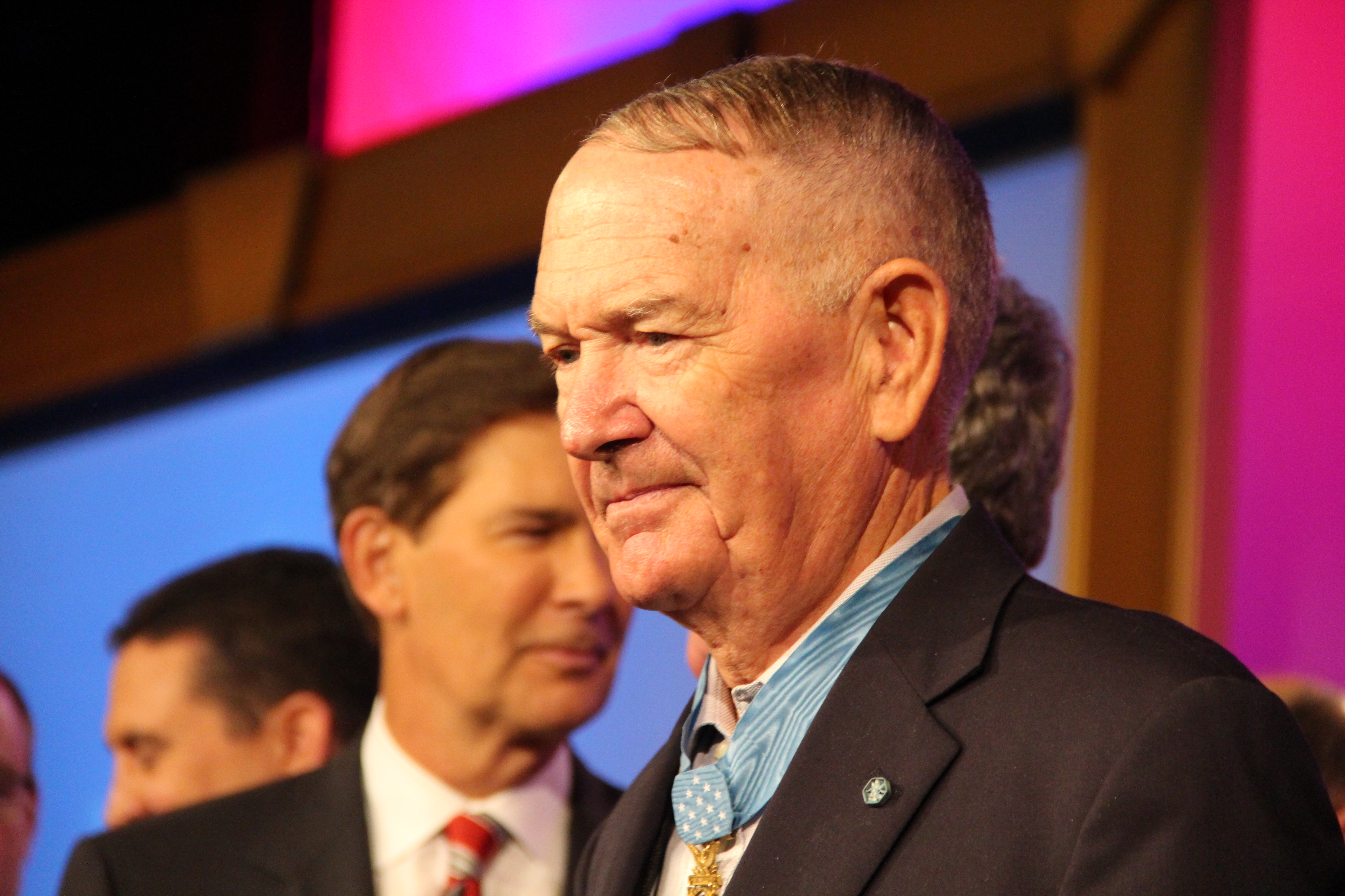 Walter Joseph Marm Jr. in 2014. Walter Marn is a retired U.S. officer and Medal of Honor recipient.